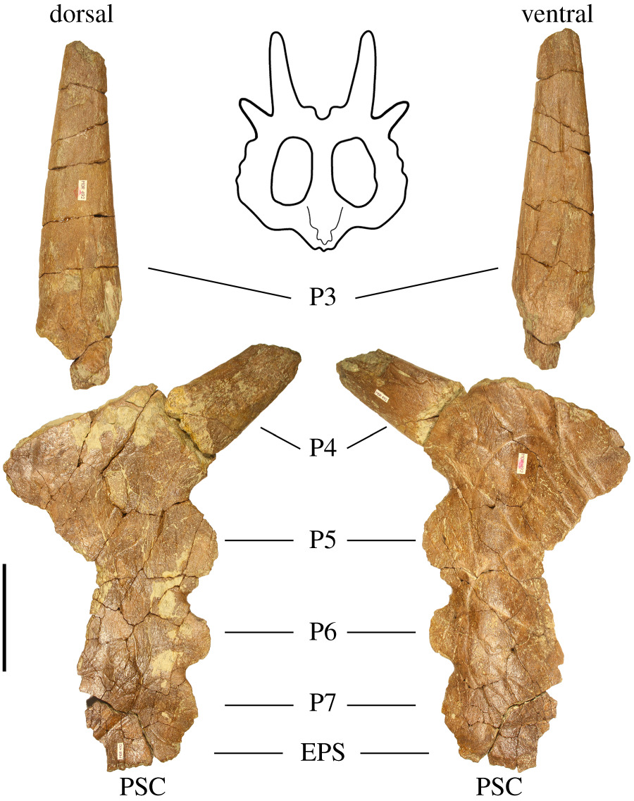 Left lateral parietal bar of Stellasaurus ancellae holotype MOR 492 in dorsal and ventral views. EPS, epiparietosquamosal; PSC, parietosquamosal contact. Scale bar 10 cm. Parietal line drawing modified from Evans & Ryan [22], Public Library of Science (PLoS), used under Creative Commons Attribution 4.0.